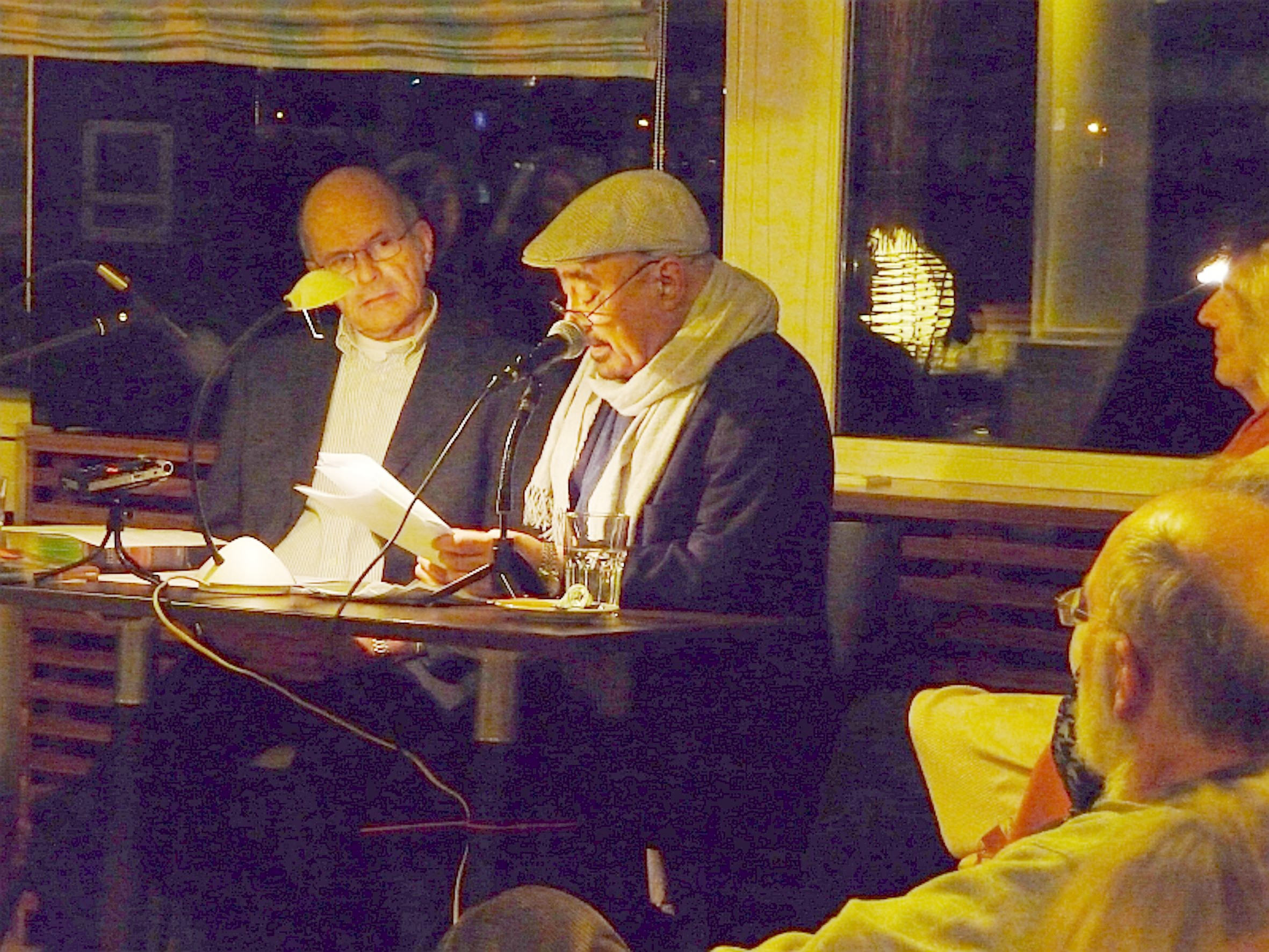 Massum Faryar & Klaus Servene